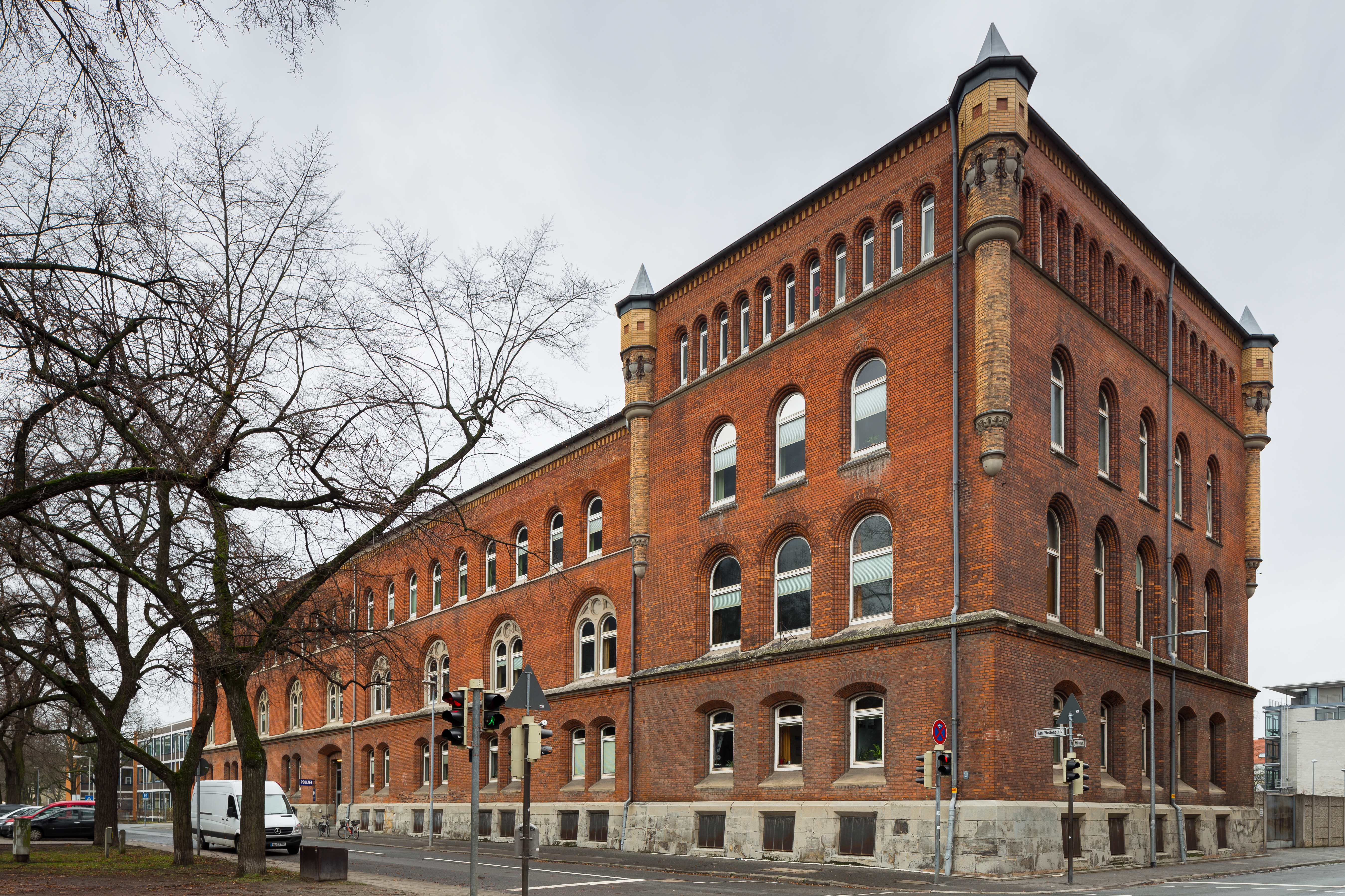 Former infantry barracks located at Welfenplatz square no. 2 in List district of Hannover, Germany. Today, the building is used by the police department.